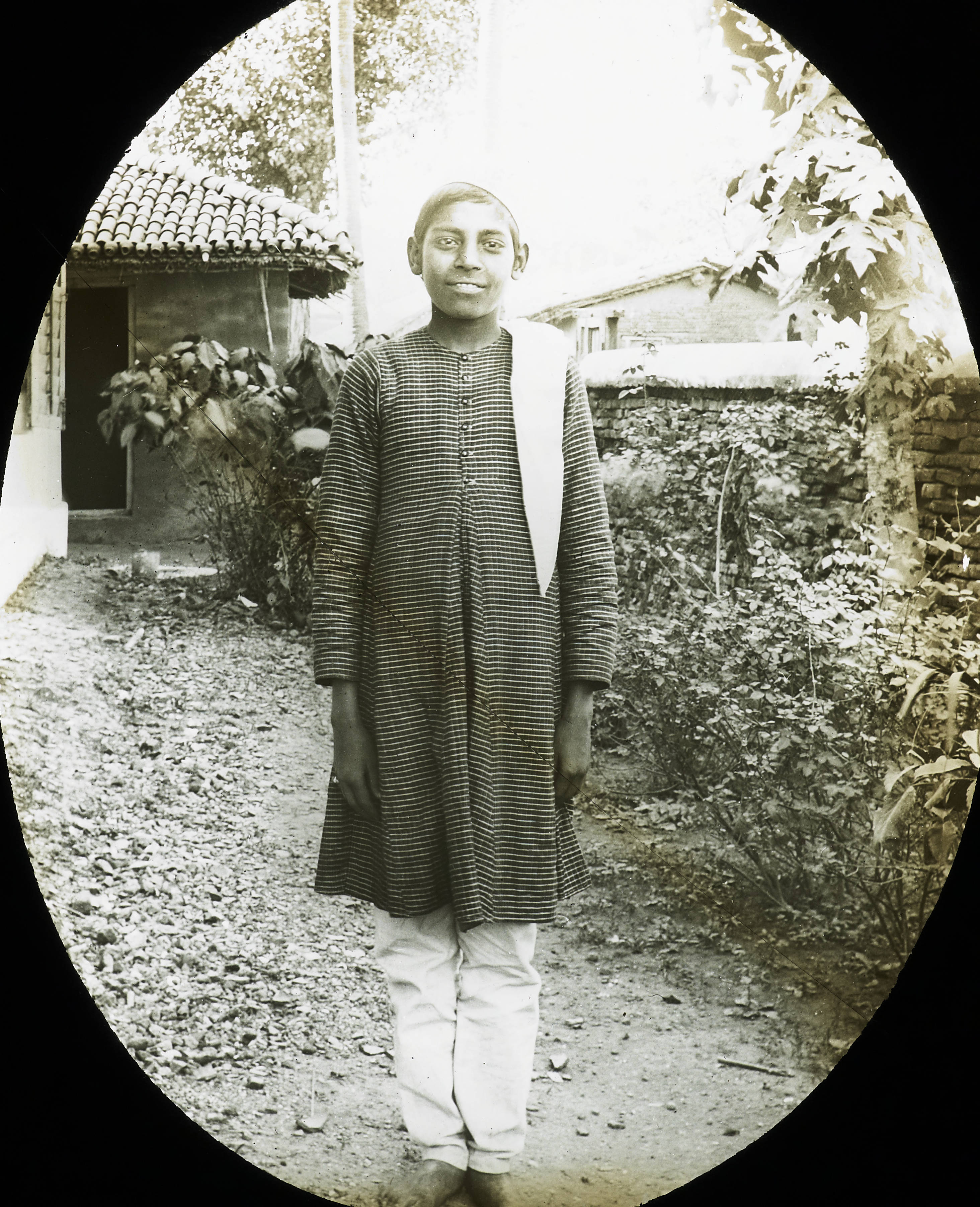 A Hindu boy in holiday attire, India, ca. 1906 Black and white lantern slide showing a Hindu boy in his best clothes, standing on a path up to a dwelling. He wears a sherwani, a long jacket fastened with buttons, and churidas, or trousers. The boy has a cap on his head and wears a scarf over his shoulder. This slide comes from a collection created by missionaries from Regions Beyond Missionary Union, an interdenominational Protestant evangelical mission working in northeast India (Bihar and Orissa) and Nepal. Photographer: Unknown Filename: IMP-CSCNWW33-OS14-12.tif Coverage date: 1900/1910 Subject (unesco): Clothing; Fashion Part of collection: International Mission Photography Archive, ca.1860-ca.1960 Part of subcollection: Photographs from the Centre for the Study of World Christianity, University of Edinburgh, U.K., ca.1900-ca.1940s Repository name: Centre for the Study of World Christianity Archival file: Volume3/IMP-CSCNWW33-OS14-12.tif Repository address: The University of Edinburgh School of Divinity, New College, Mound Place, Edinburgh EH1 2LX, United Kingdom Geographic subject (country): India Format (aacr2): lantern slides 8.2 x 8.2cm Geographic subject (continent): Asia Rights: Contact the repository for details. Part of series: Regions Beyond Missionary Union. India captioned lantern slides (CSCNWW33/OS14) Repository Date created: 1900/1910 Publisher (of the digital version): University of Southern California. Libraries Subject (aat genre): portraits Format (aat): lantern slides; photographs Geographic subject (state): Bihar Access conditions: Geographic subject: buildings File: CSCNWW33/OS14/12 Contributor: Gardner & Co Opticians, Glasgow Subject (lcsh): Boys; Hinduism; Clothing and dress